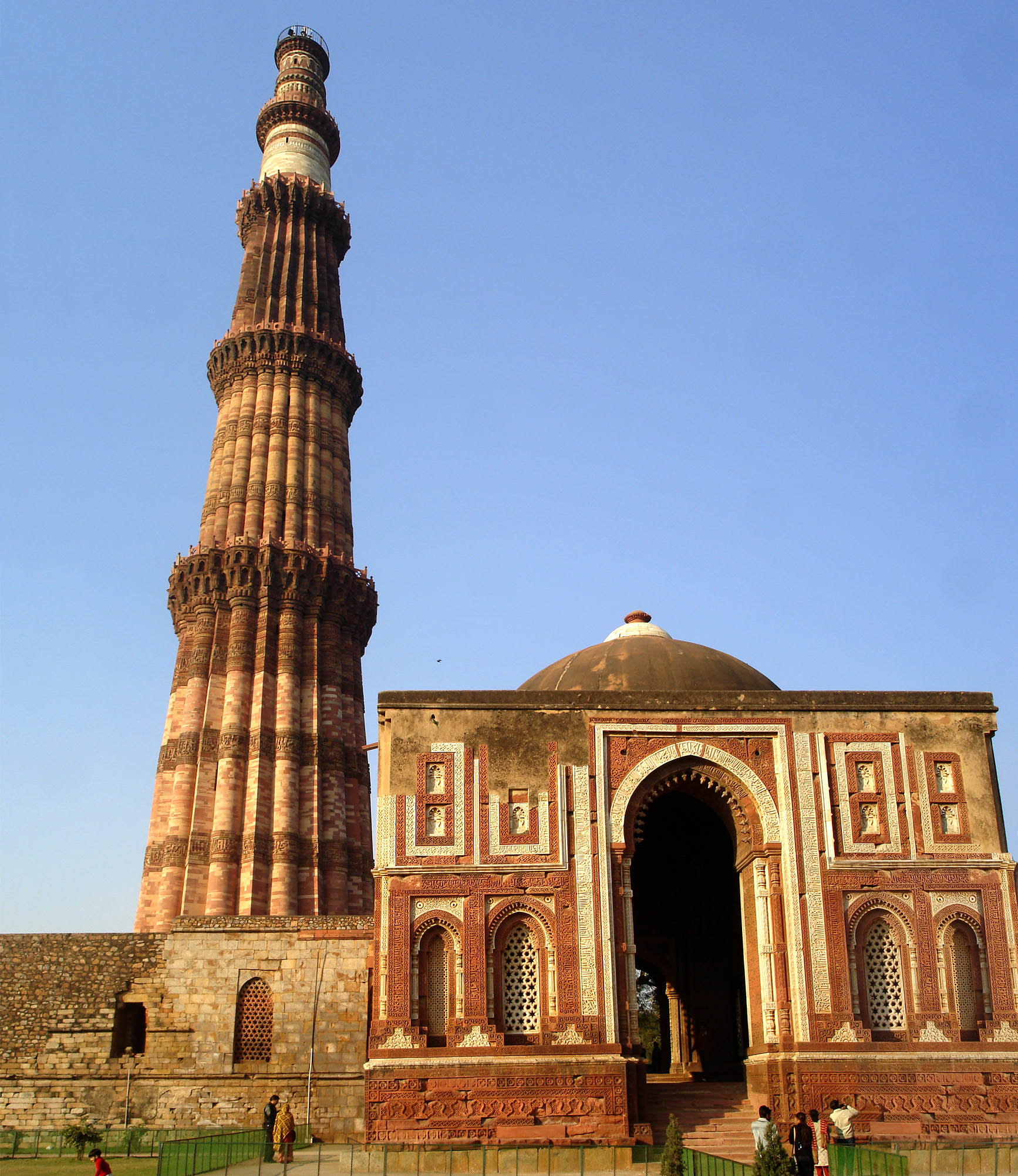 The tower and mausoleum, Delhi.